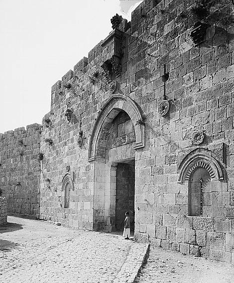 Jerusalem, Zion Gate between 1898 to 1914.